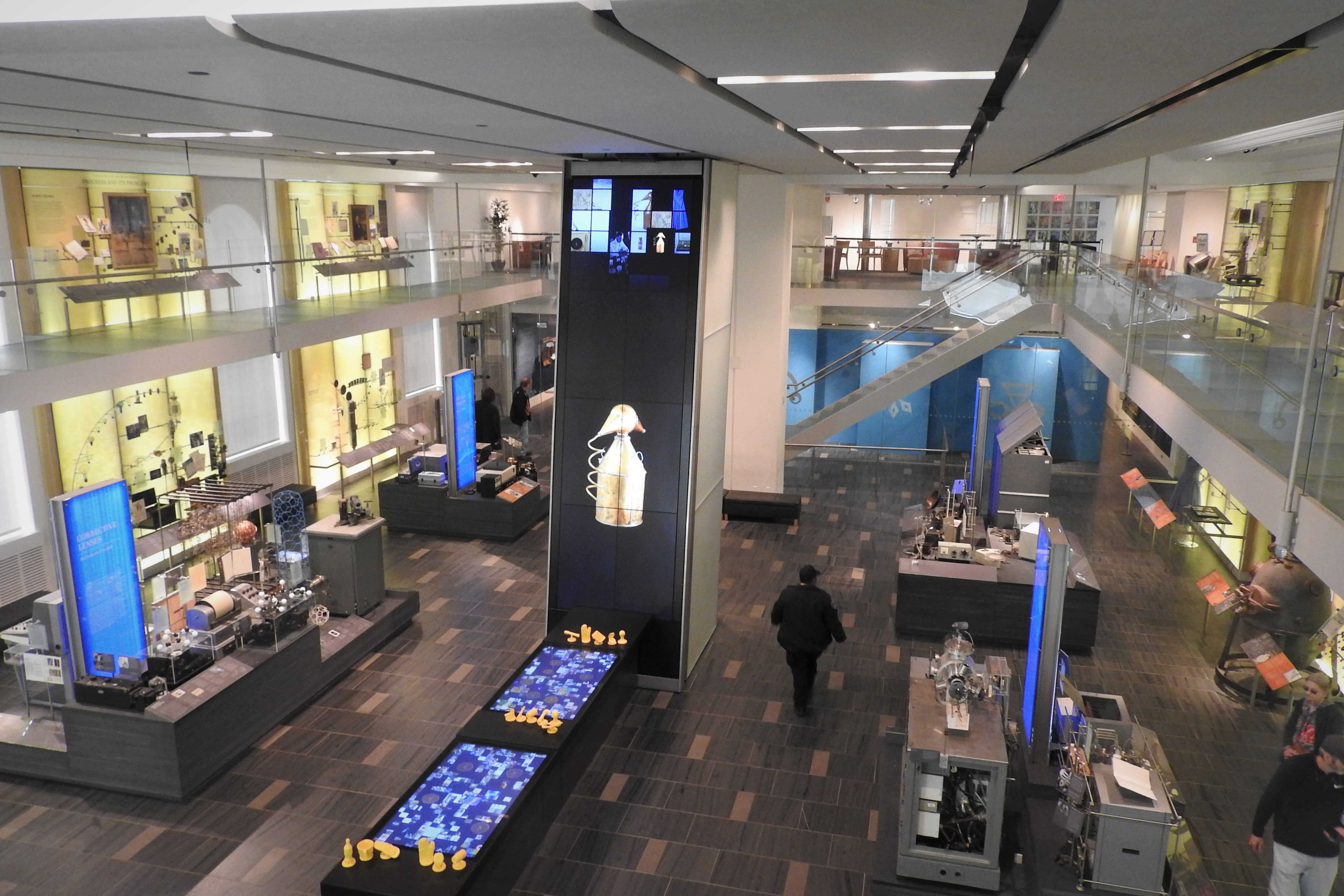 Looking north from the balcony